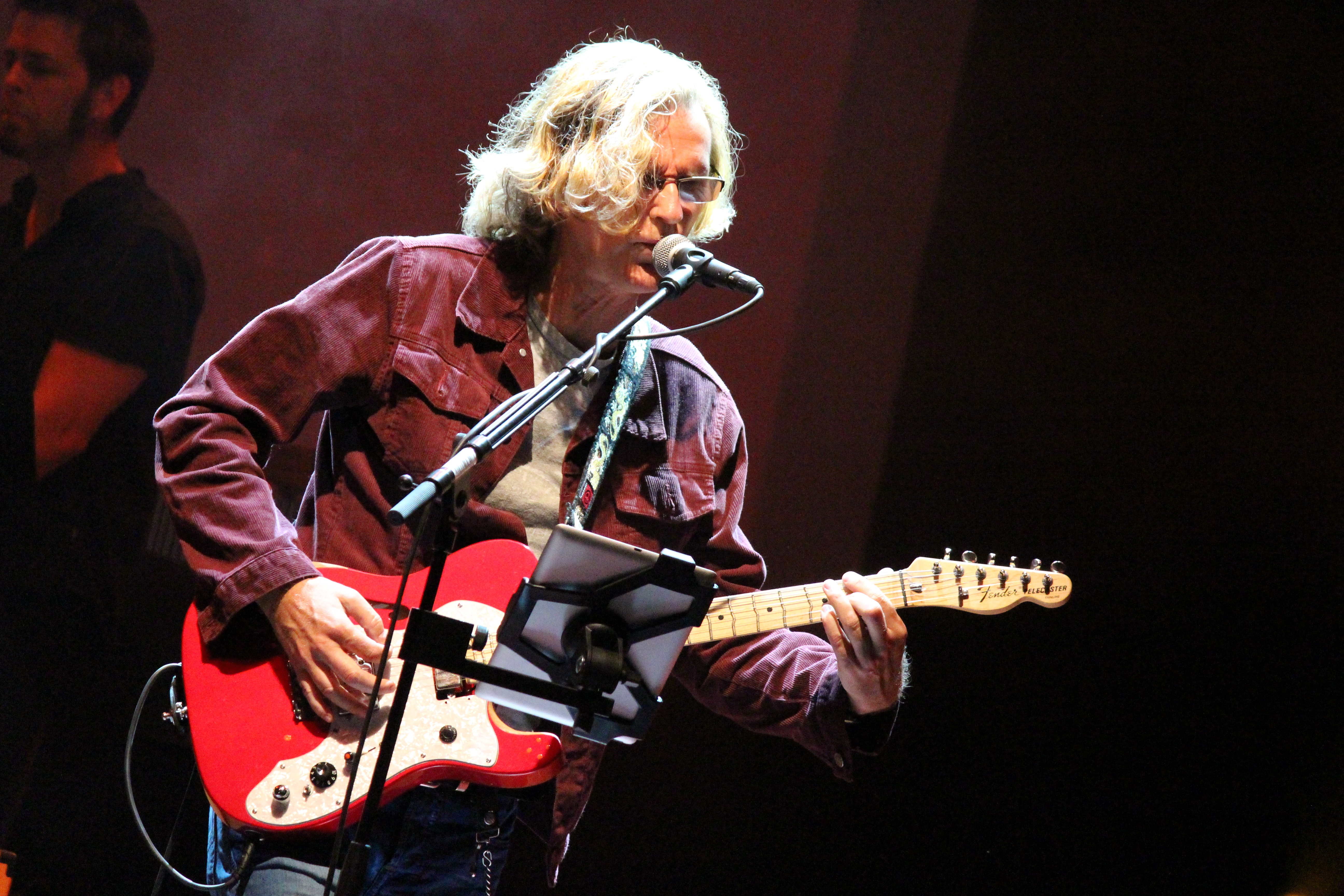 Transatlantic au Night of the Prog Festival, 18 juillet 2014